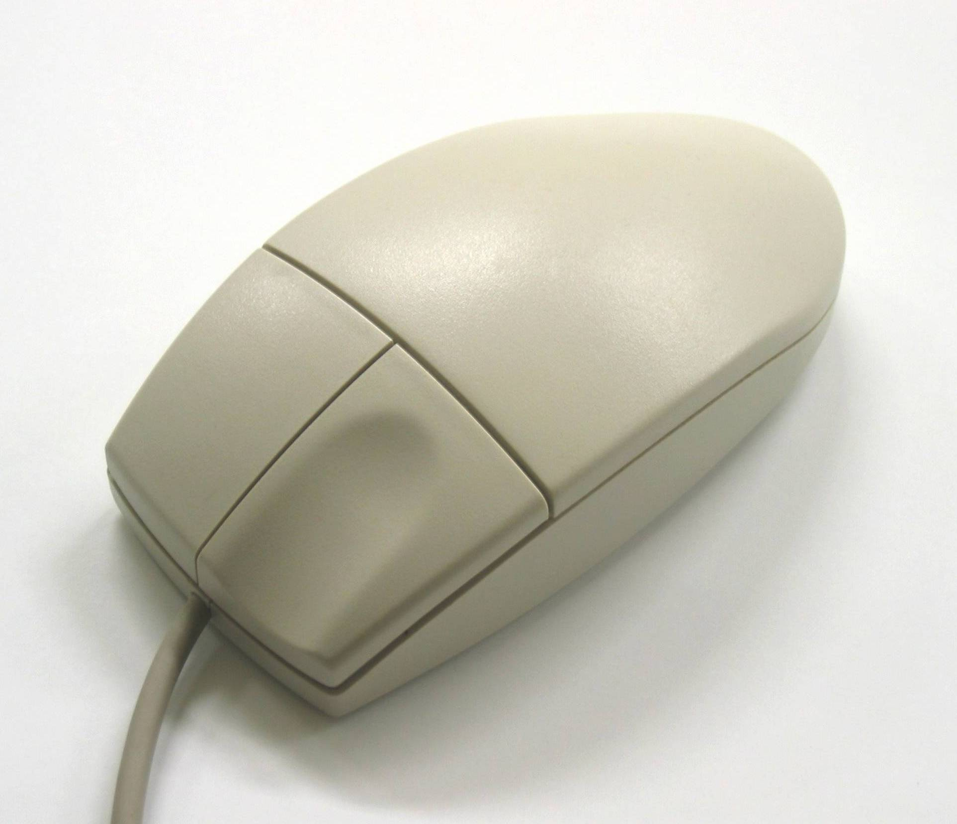 A basic computer mouse has two buttons.